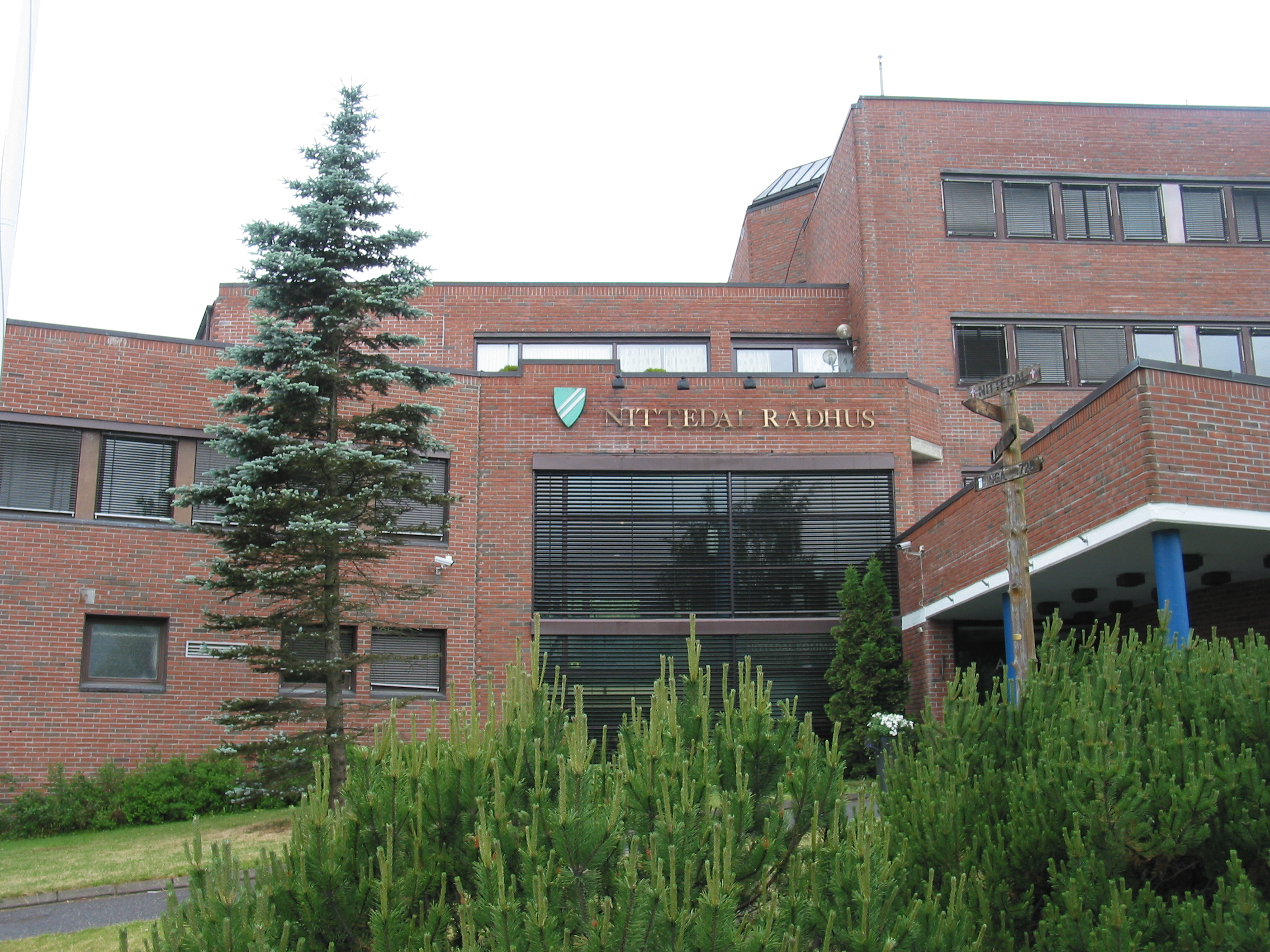 Nittedal town hall, in the village of Rotnes. June 2008.